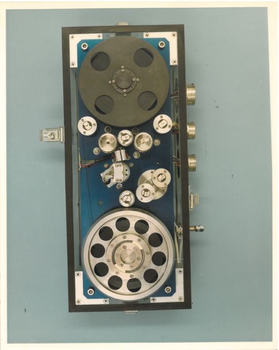 Voyager 1 digital recorder